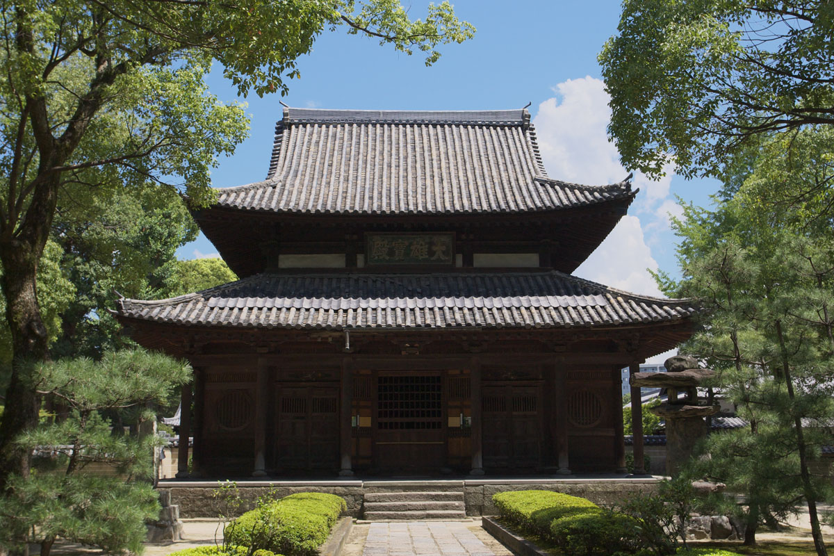 Shoufukuji temple, in Hakata-ku, Fukuoka city, Japan.